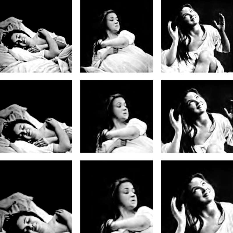 Jean-Martin Charcot Series inspired by French neurologist Jean Martin Charcot studies in Neurosis. Charcot (1825-1893) used hypnotism to treat hysteria and other abnormal mental conditions and he had a profound influence on many farther neurologists, psychologists and psychotherapists as Sigmund Freud (1856-1939), father of psychoanalysis. - All materials from “Iconographie photographique de la Salpêtrière” (Jean Martin Charcot,1878).